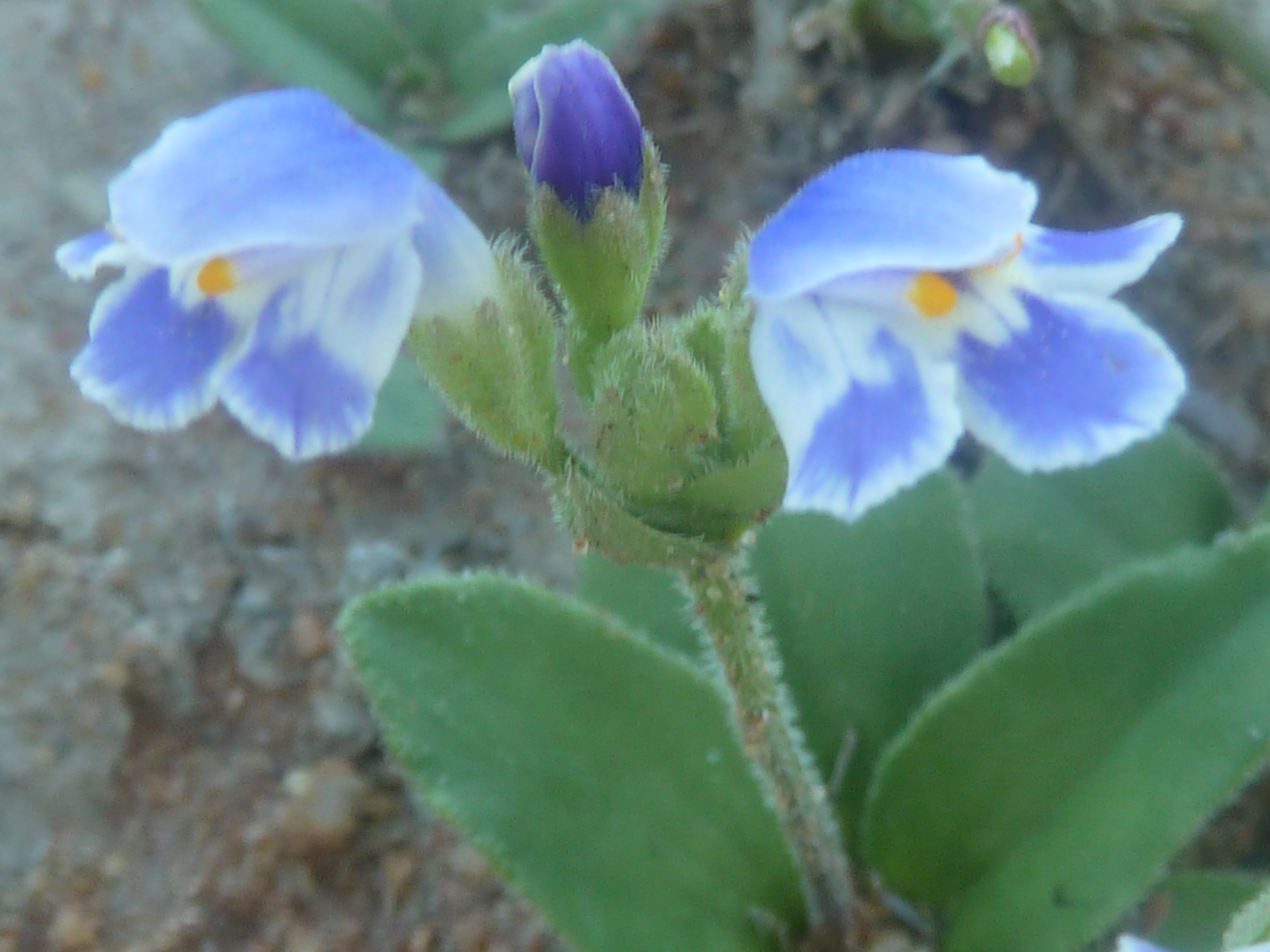 Flowers of Blue carpet in the southern section of Borakalalo Game Reserve, North West, South Africa